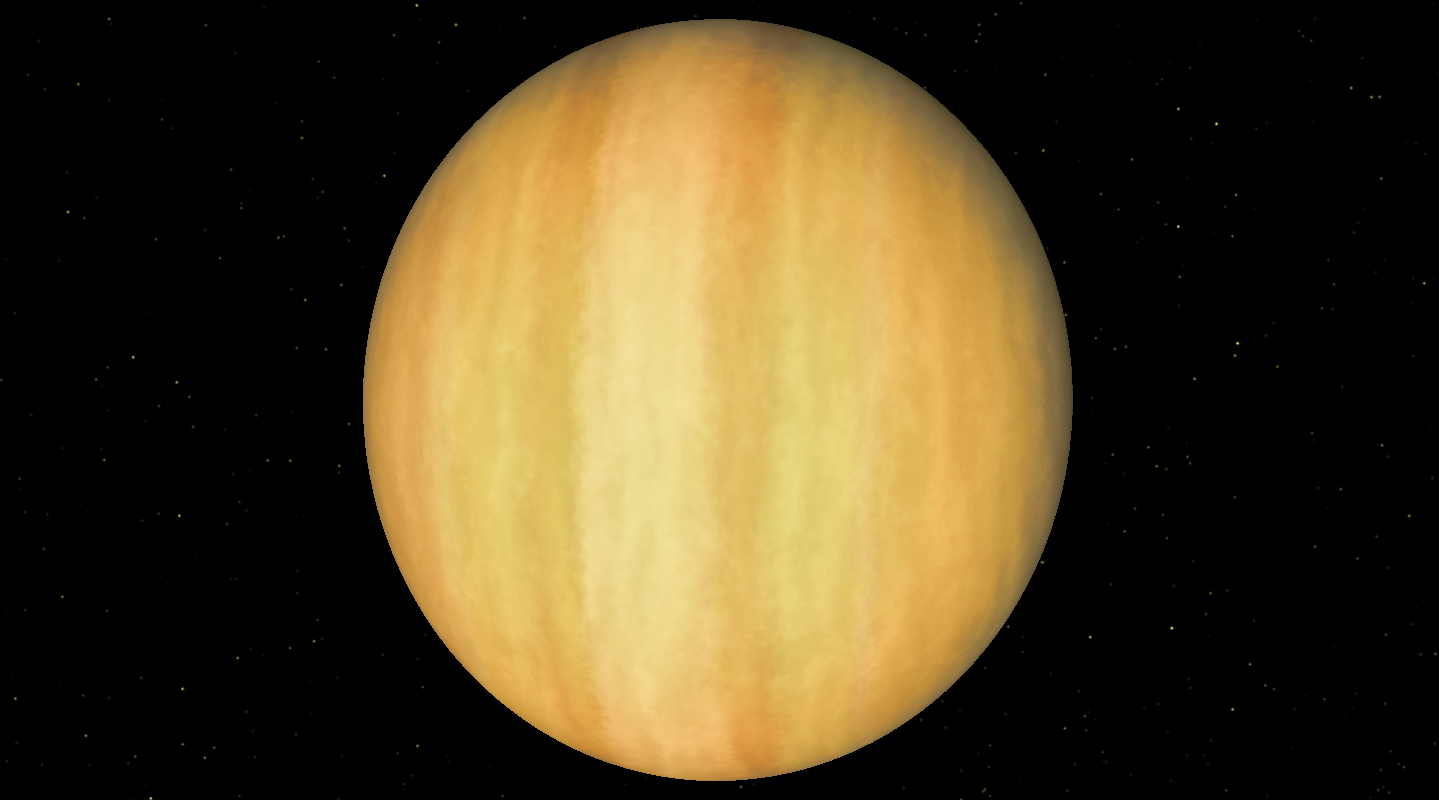 Simulation of the extrasolar planet Gliese 849 b. The image was taken from the free program Celestia